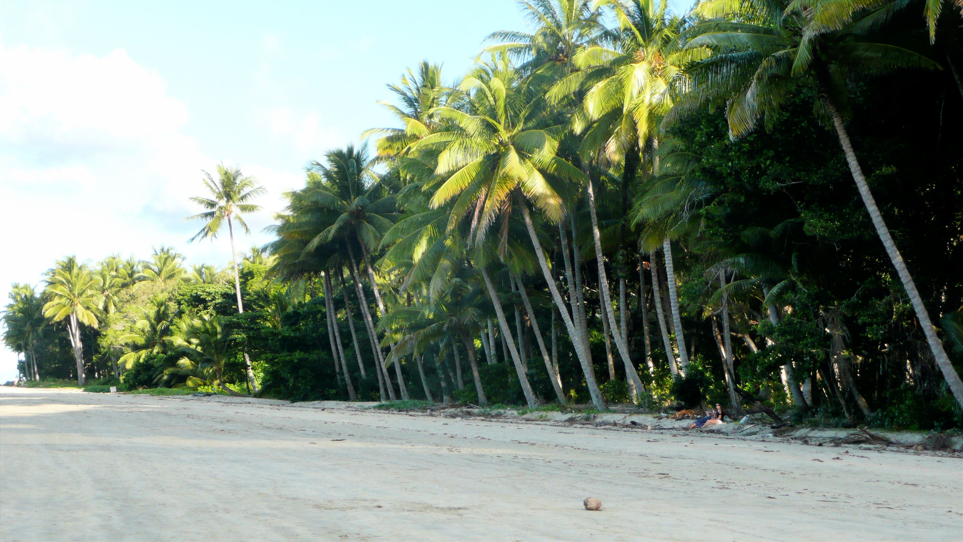 Beach in Port Douglas 3